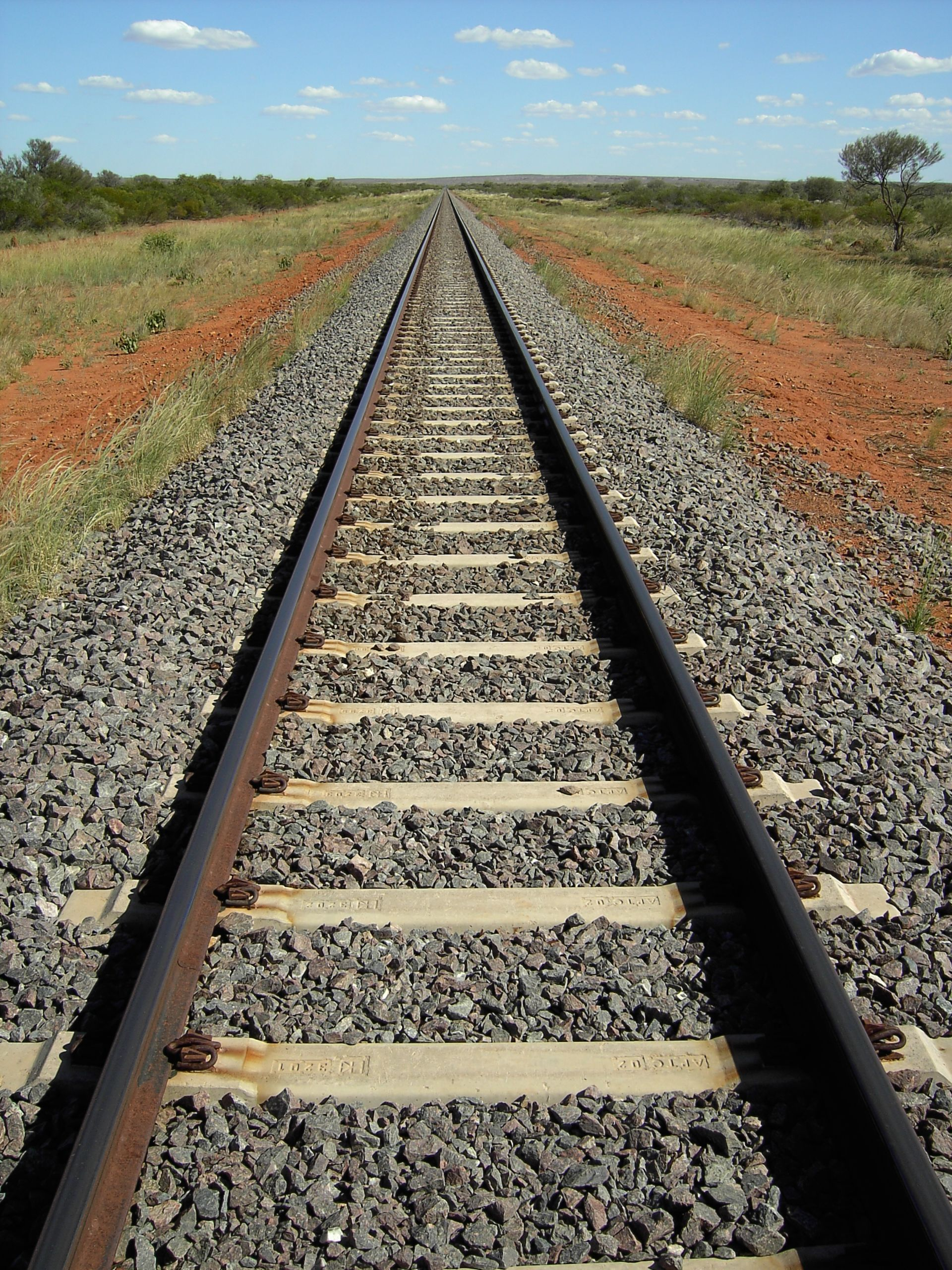 Central Australian Railway, near Tennant Creek